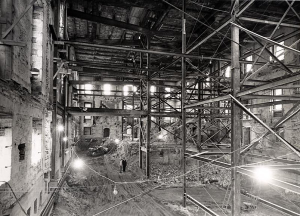 Workmen digging the sub-basement in the demolished White House during the Truman Renovation.